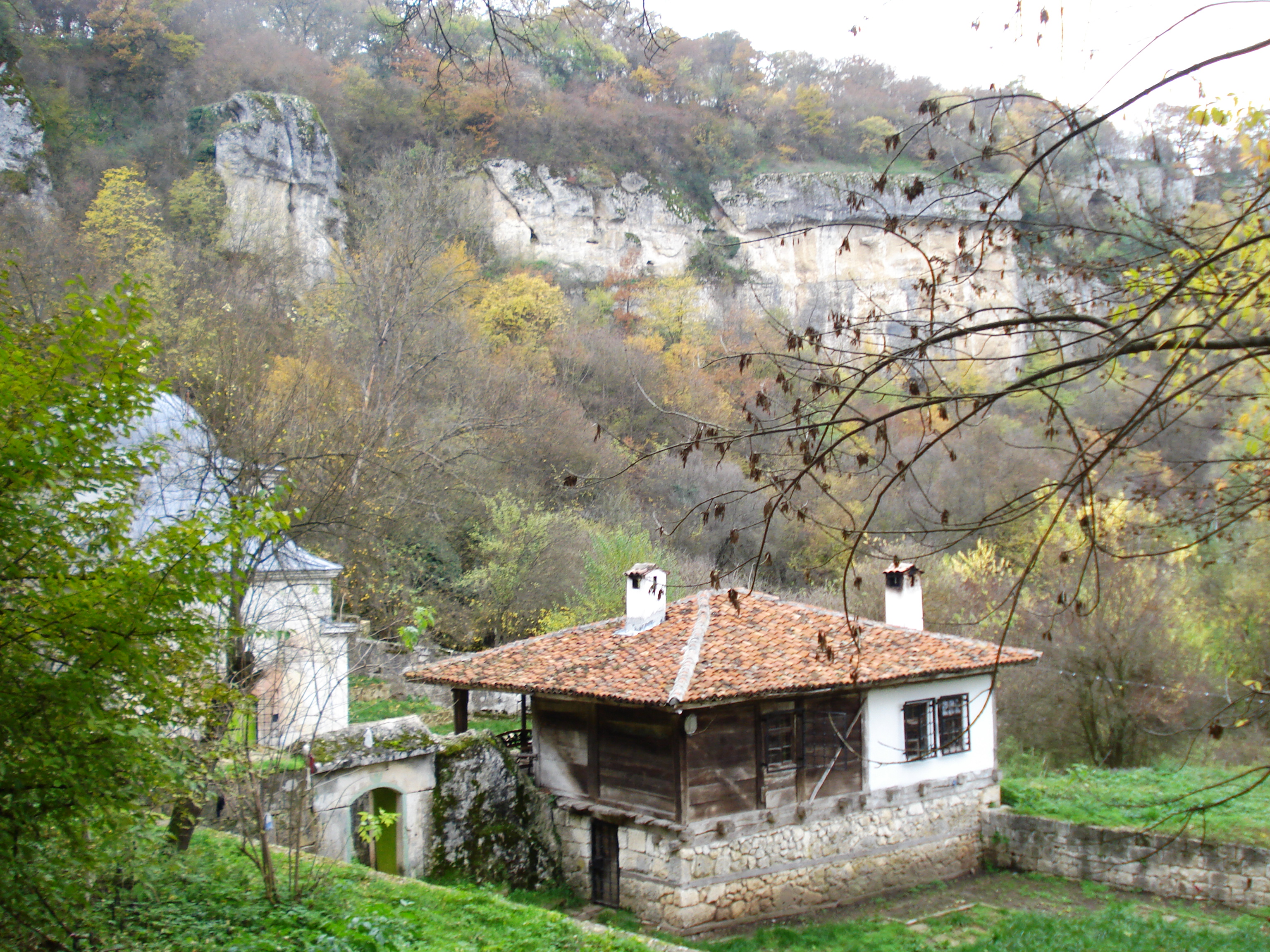 Demir Baba Tekke and a Thracian Sanctuary at Sboryanovo Archaeological Reserve in Bulgaria